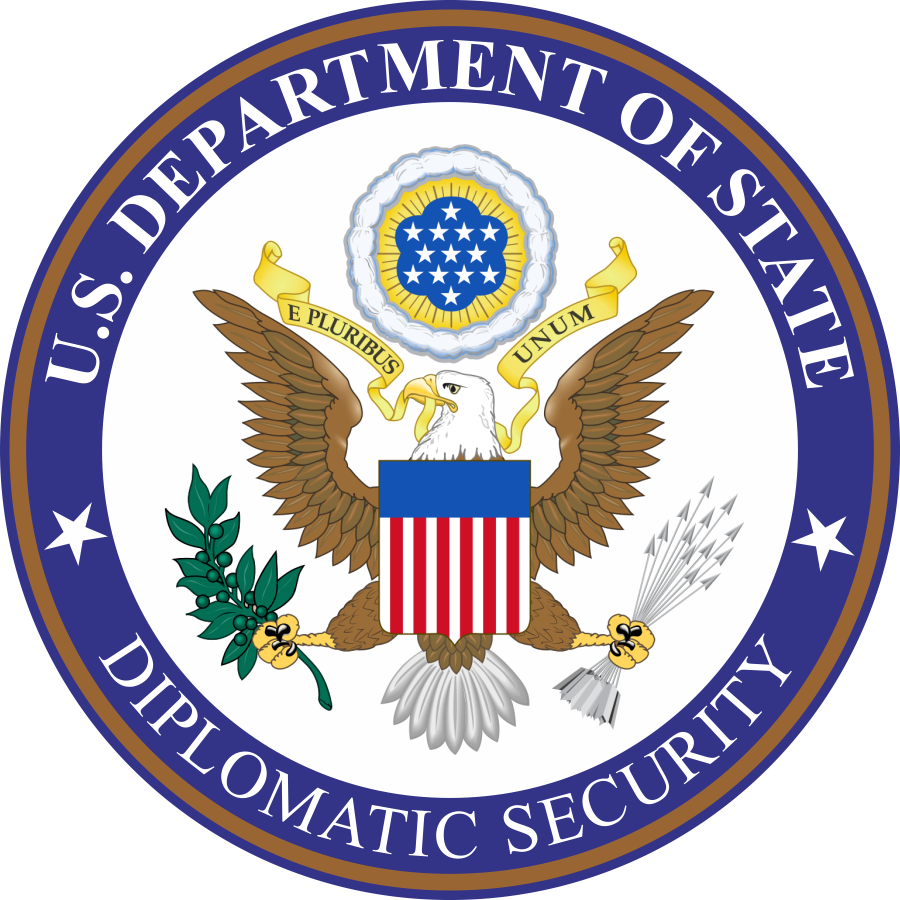 Department of State - Diplomatic Security Seal